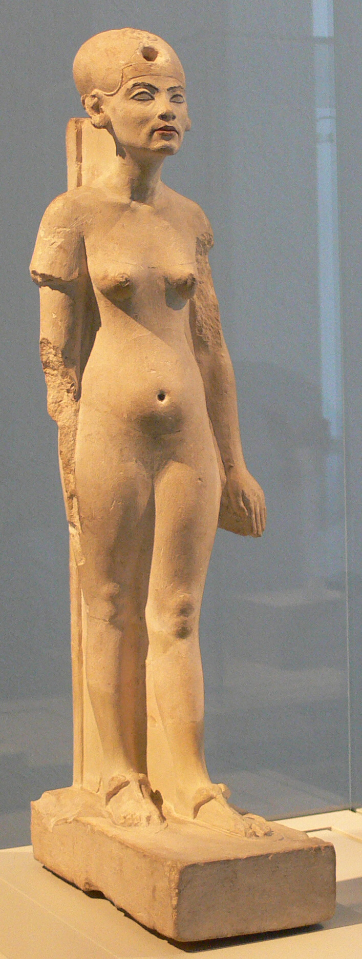 Standing-striding figure of Nefertiti; Limestone; Amarna; New Kingdom, 18th dynasty; c. 1345 BC. Egyptian Museum Berlin, Inv. no. 21263.